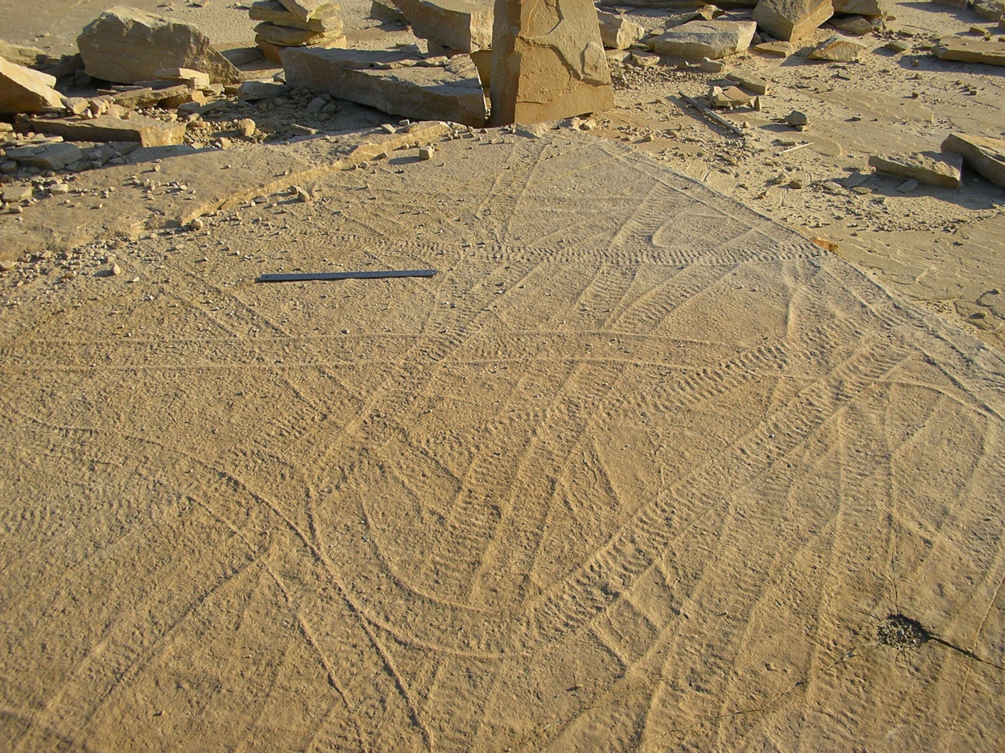 Climactichnites (probably trackways from a slug-like animal), late Cambrian, central Wisconsin